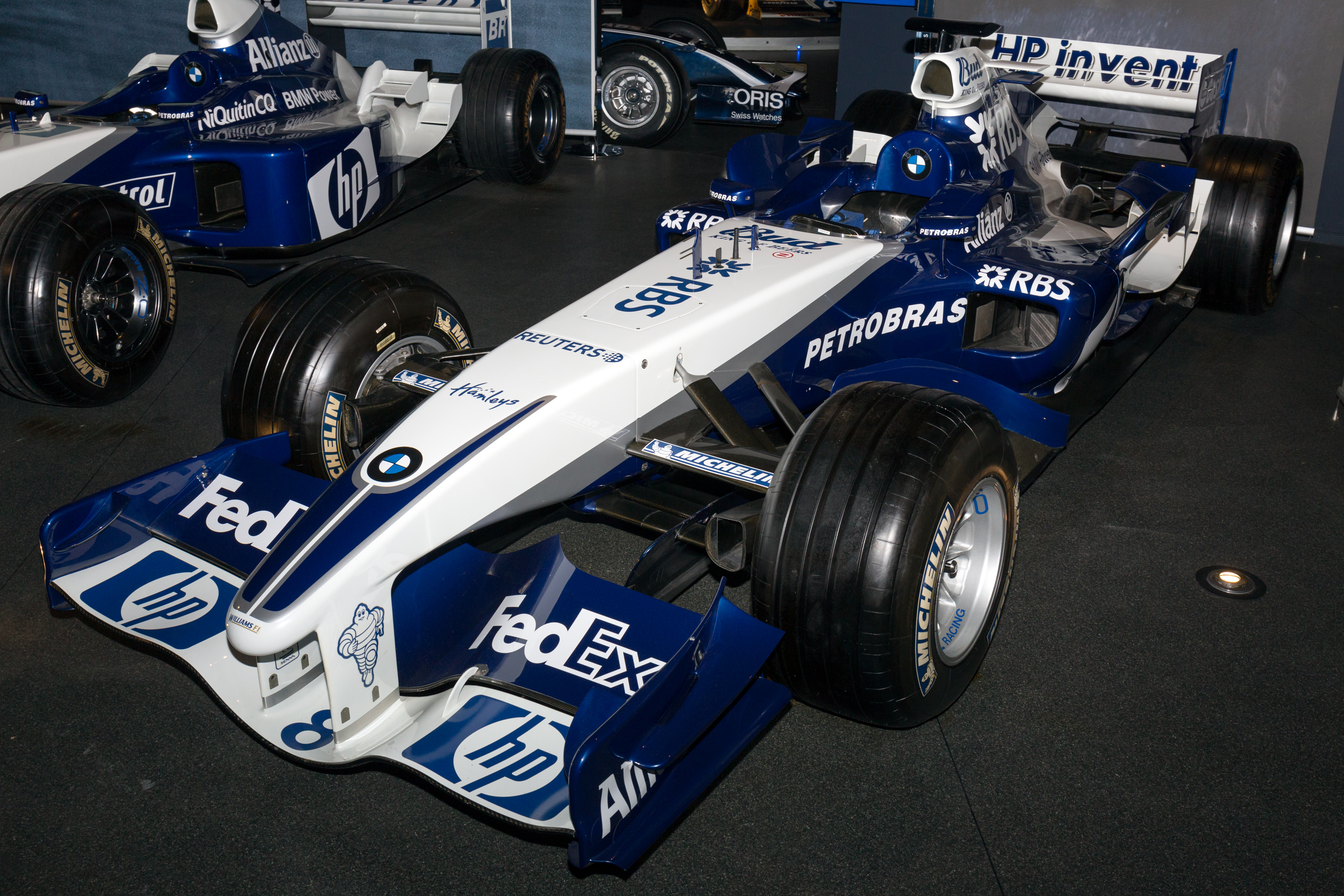 Williams Conference Centre (Grove): Williams FW27 of Nick Heidfeld